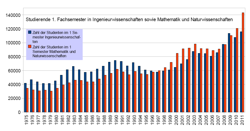 Time series: Germany first year students in mathematics engineering science